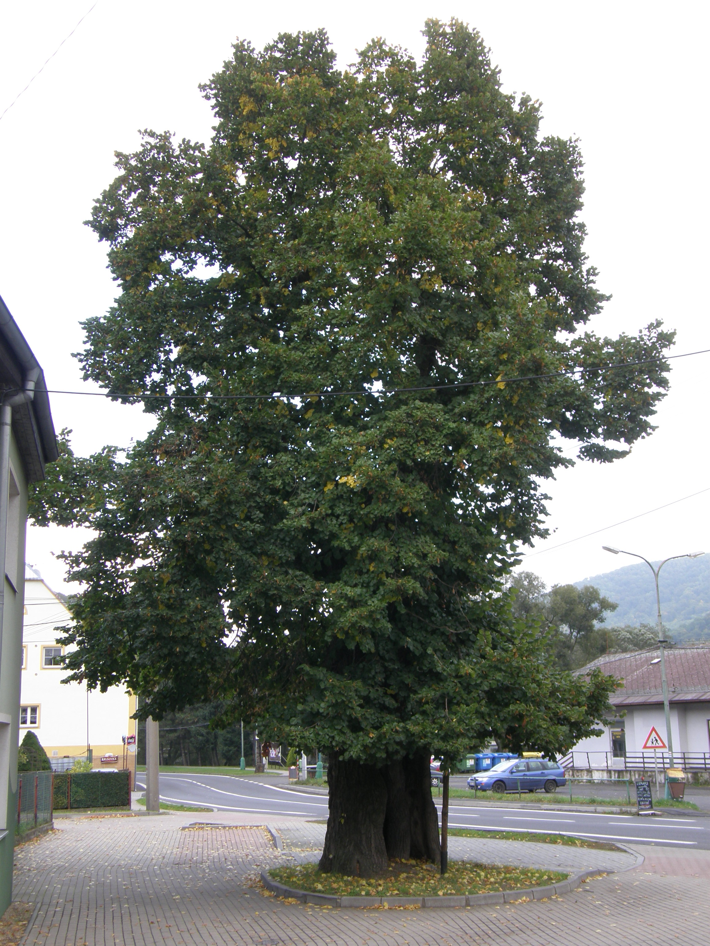 Stráž nad Ohří - memorial tree in the center